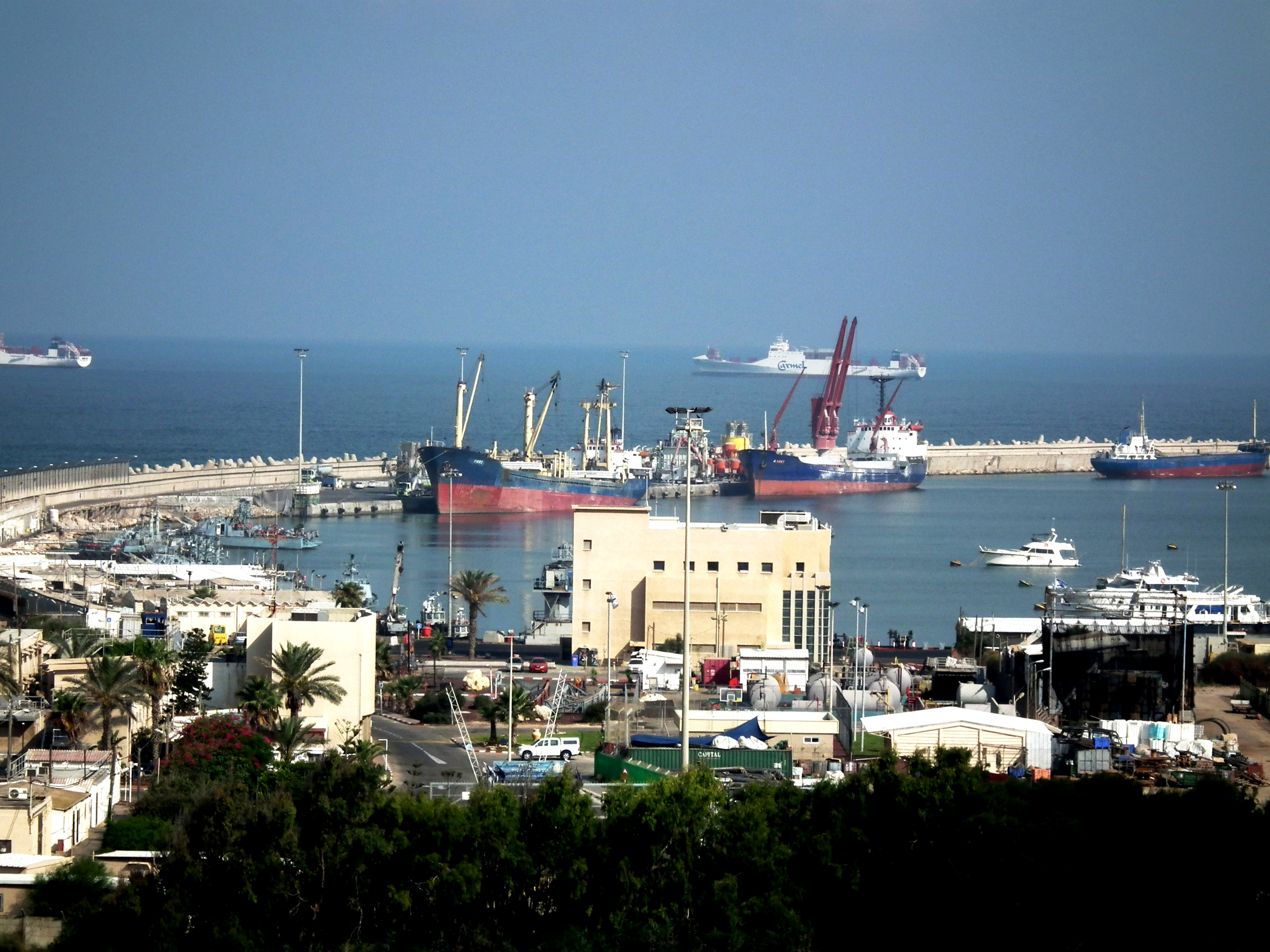 view from "GIVAT YONA\"